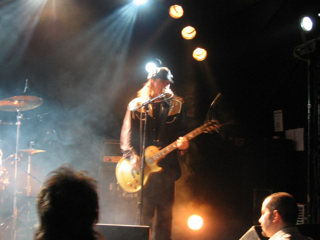 Jim Wilson of Mother Superior. Live at Nouveau Casino, Paris.